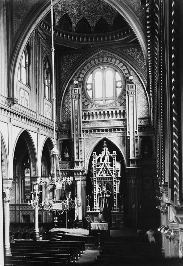 Isaac M. Wise Temple, located in Cincinnati, Ohio. The historic synagogue erected for Rabbi Isaac Mayer Wise. Rabbi Wise was the founder of American Reform Judaism. The temple building was designed by prominent Cincinnati architect James Keys Wilson in 1866.